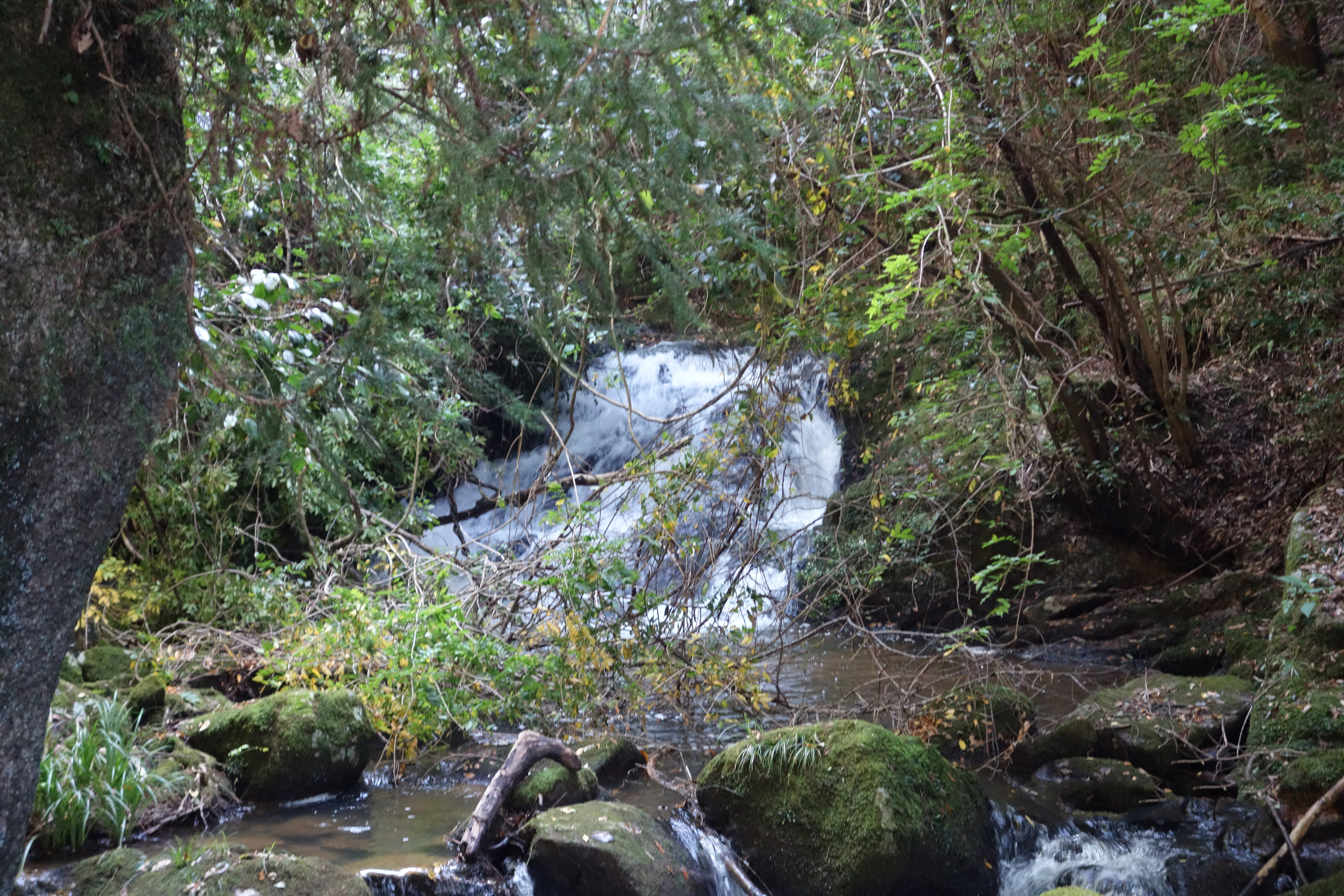 3.Shiragami no taki(waterfall) in Kōyama, Shigaraki, Koka, Shiga, Japan